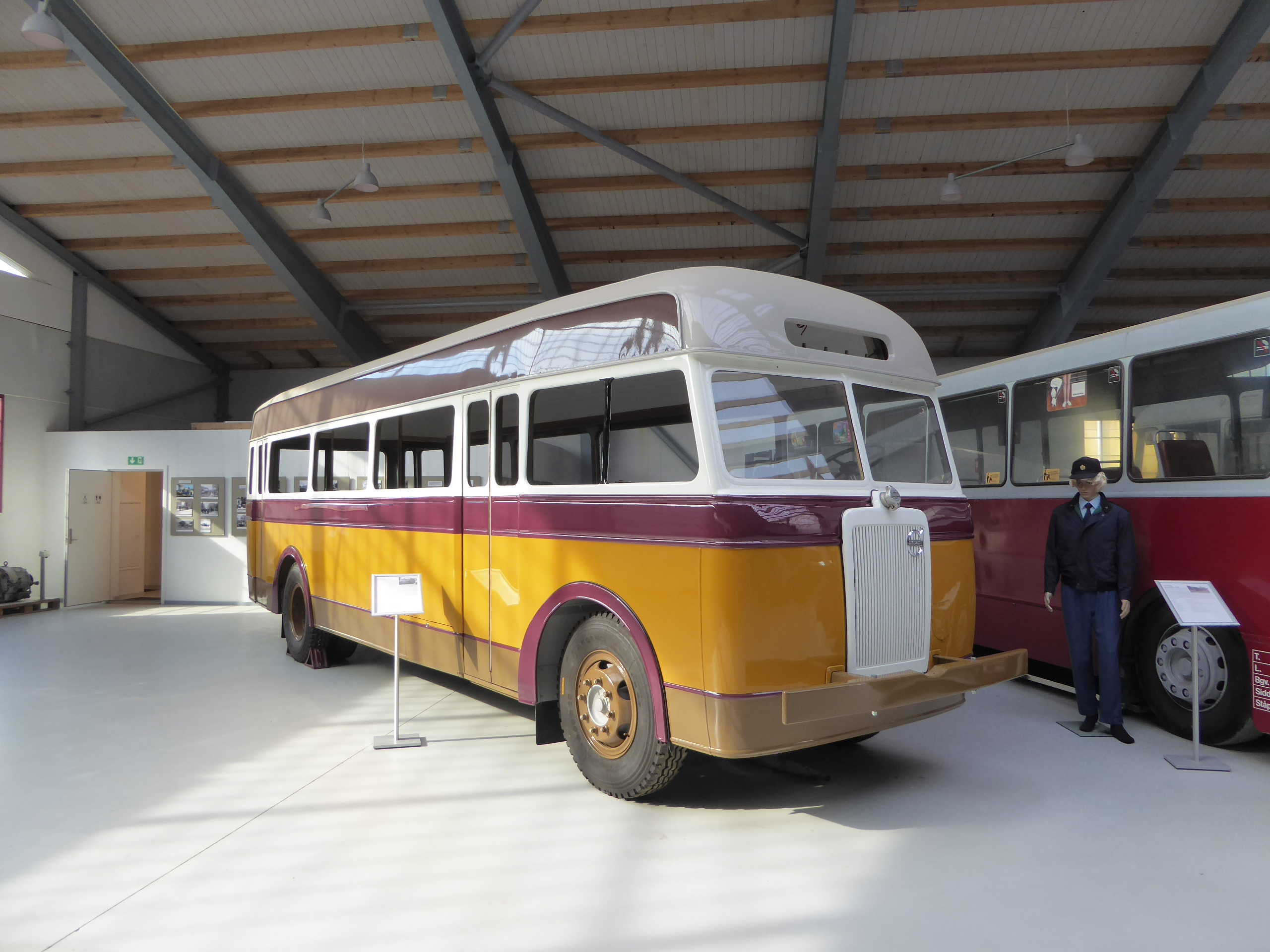 Old bus from Odense, Odense Omnibus 15 from 1949, in Busudstillingshallen at Sporvejsmuseet Skjoldenæsholm in Denmark.